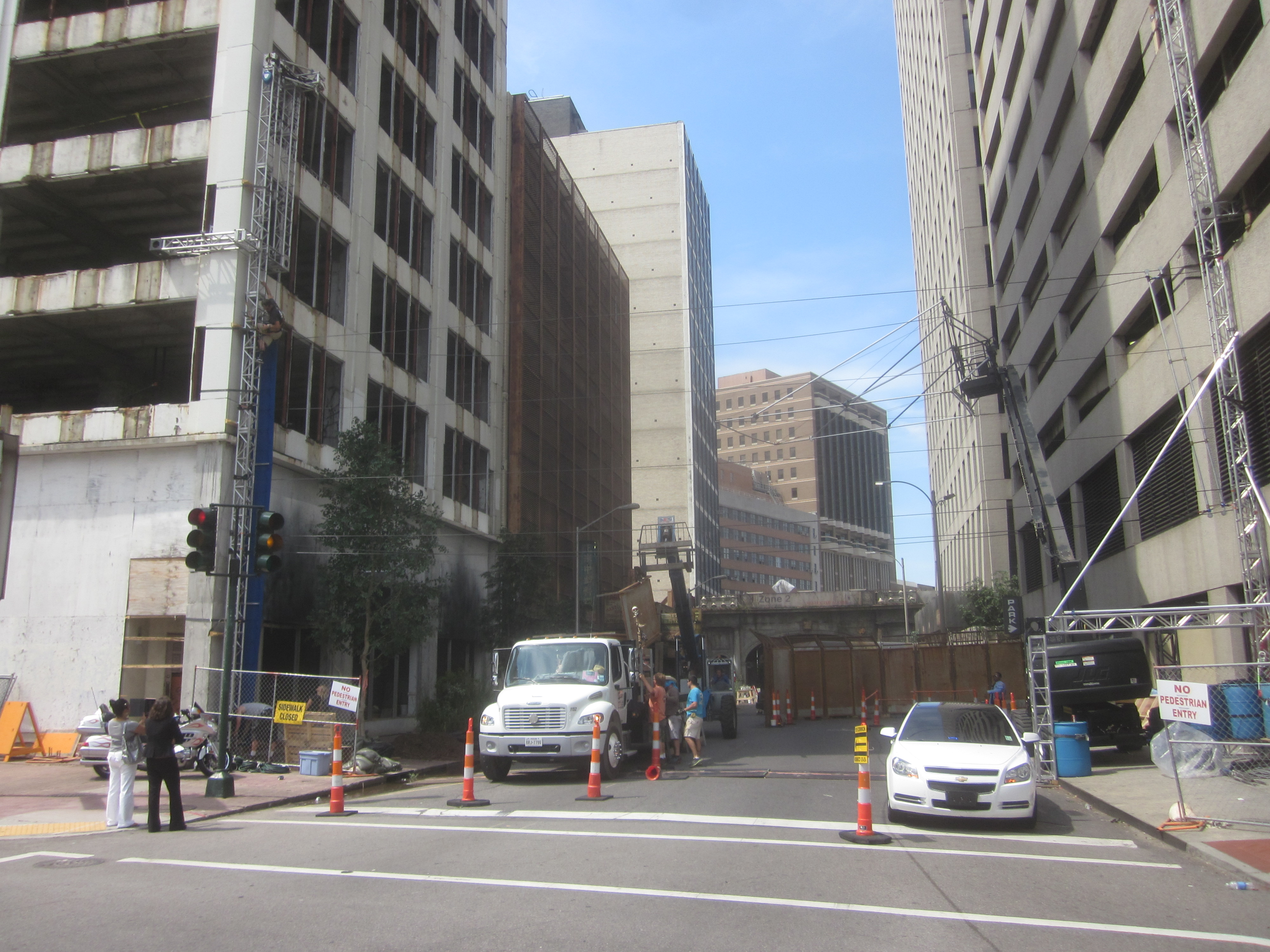 Rampart Street at Gravier, New Orleans. Film set for "Dawn of the Planet of the Apes" movie.